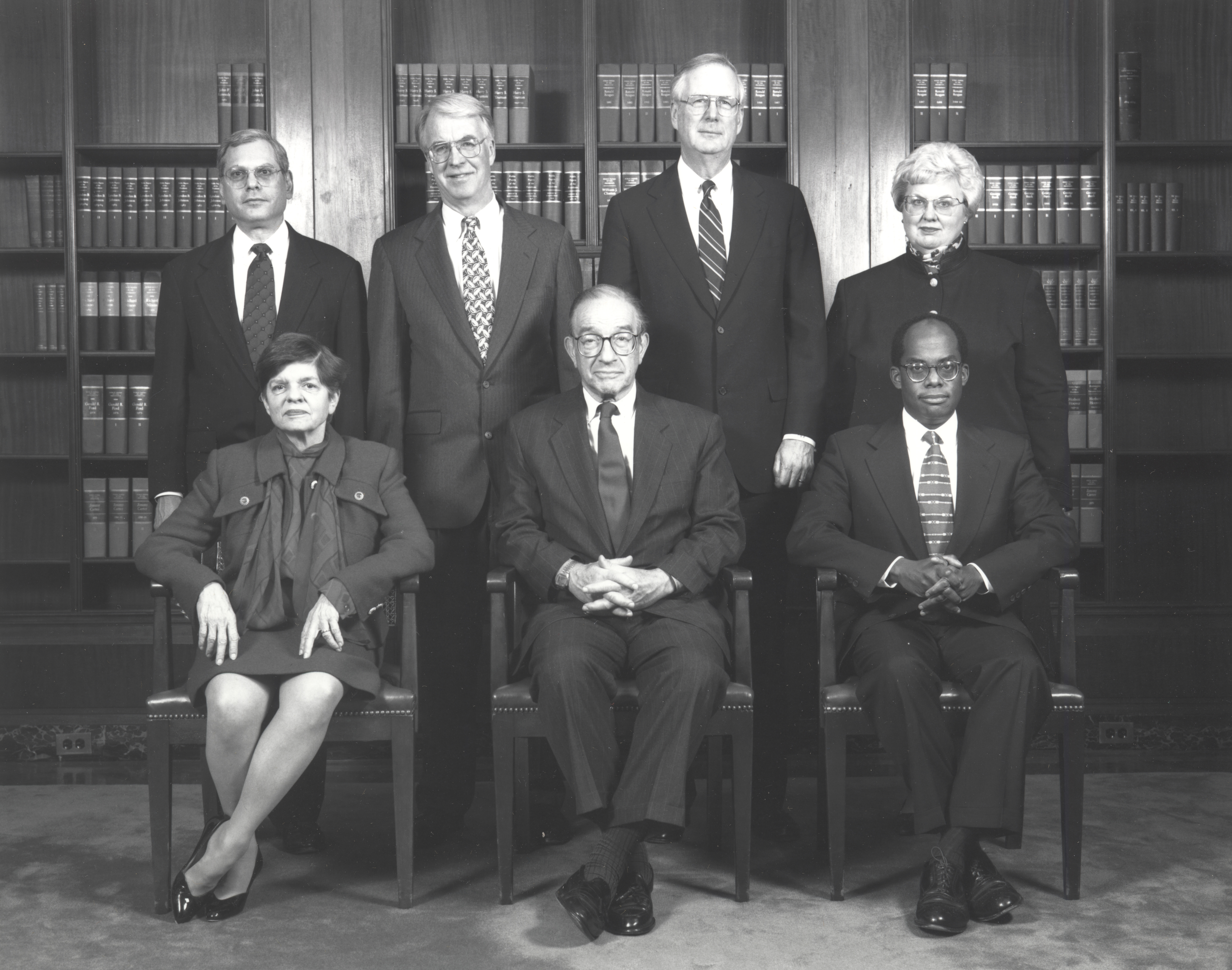 1997 Board, left to right seated: Alice M. Rivlin (Vice Chairman), Alan Greenspan (Chairman), Roger W. Ferguson Jr. (Governor), standing: Laurence H. Meyer (Governor), Edward M. Gramlich (Governor), Edward W Kelley Jr. (Governor), Susan M. Phillips (Governor) Photo credit: Brooks/Glogau Studio